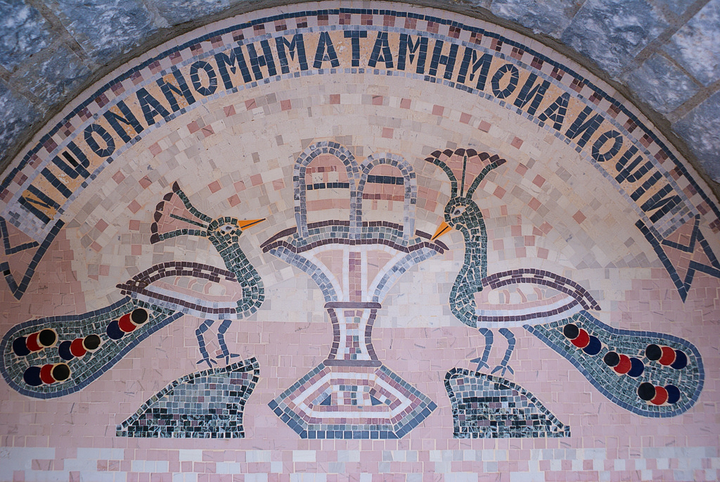 Mirror ambigram ΝΙΨΟΝ ΑΝΟΜΗΜΑΤΑ ΜΗ ΜΟΝΑΝ ΟΨΙΝ (Nipson anomemata me monan opsin, Wash your sins, not only your face) inscribed in ancient Greek upon a holy water font outside the site of Saint Hagia Sophia church in Constantinople. All the letters are symmetrical vertically, with the N stylized Ͷ in the right part, as a result the sentence is not only a palindrome but also a mirror ambigram, that can be read the same way in either direction. The phrase was firstly written on the apex at the entrance of the church, and is attributed to Gregory of Nazianzus.